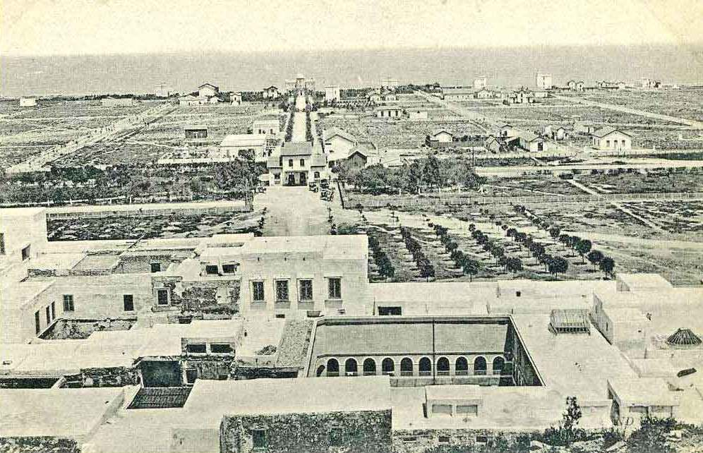 Postcard of Hammam Lif' Casino